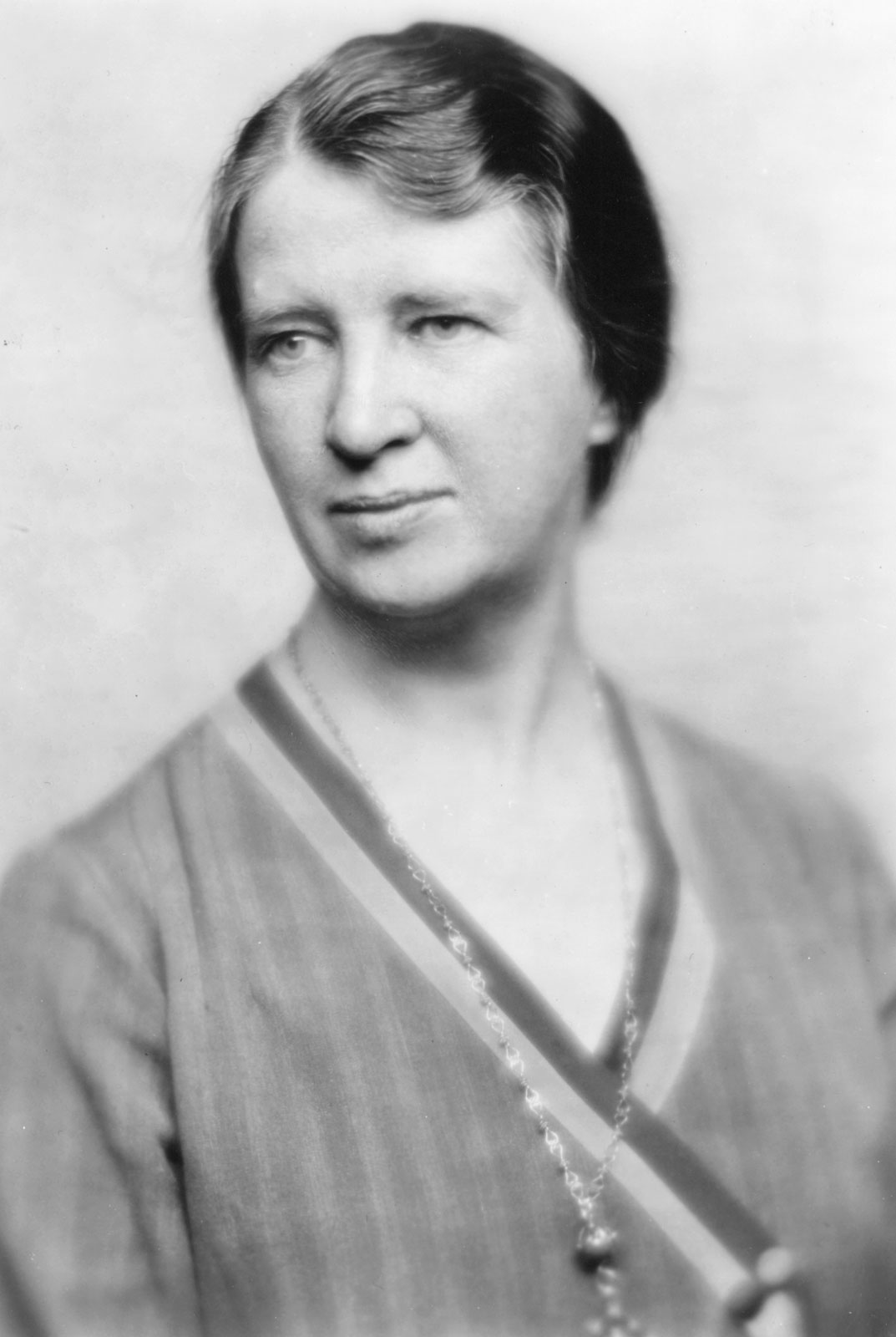 Photograph of Mary Van Kleeck.